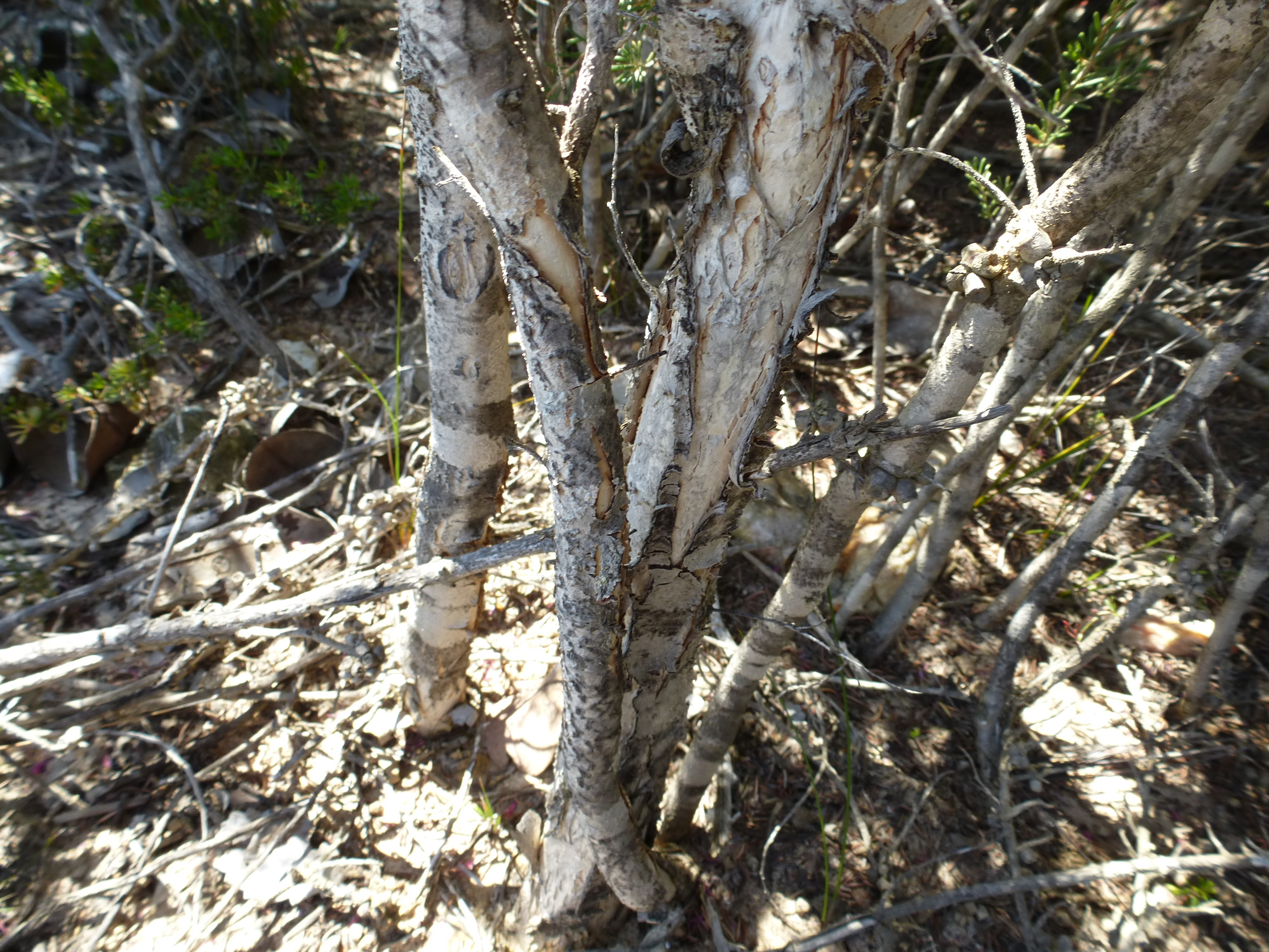 Melaleuca scabra growing at Mylies Beach near East Mount Barren